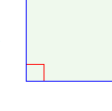 Grafic of a right angle by Toobaz (